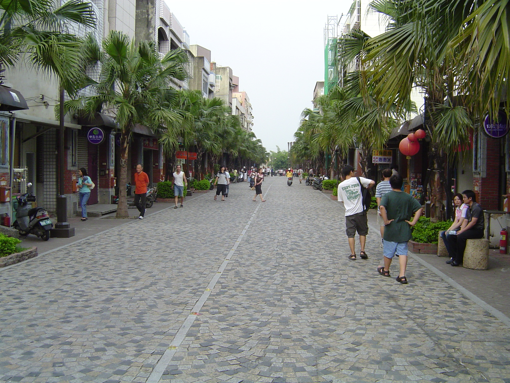 Yingge Old Street, Yingge, Taiwan